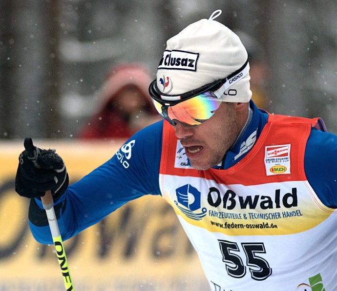 Vincent Vittoz at the Tour de Ski 2010 in Oberhof